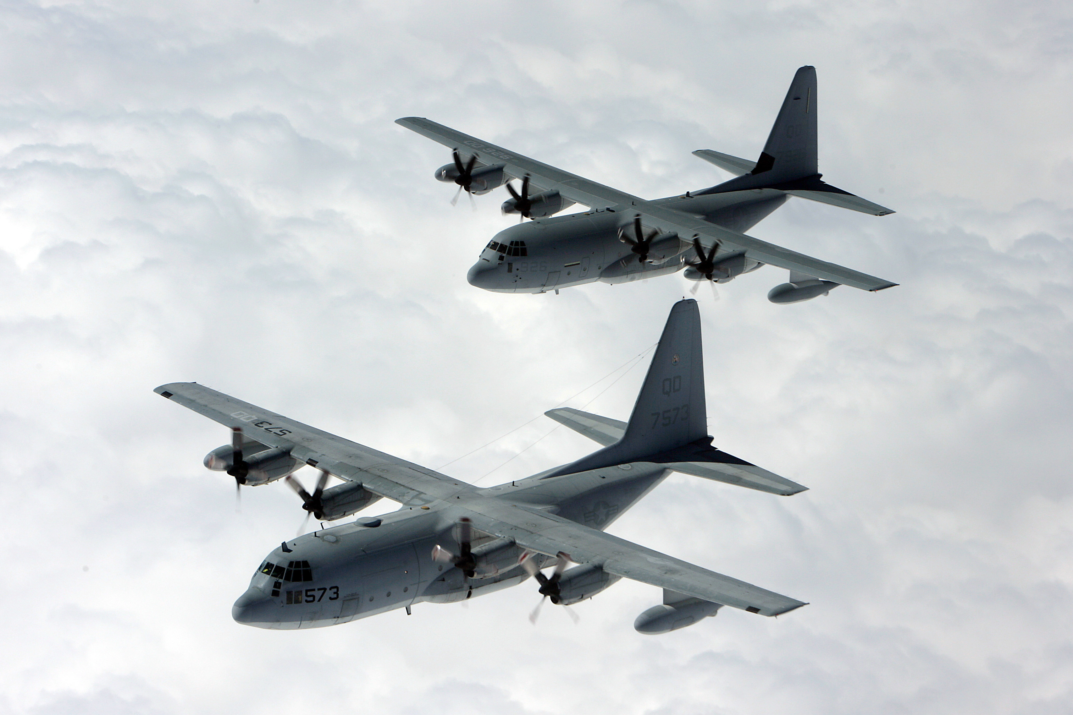 U.S. Marine Corps KC-130 aircraft of Marine Aerial Refueler Transport Squadron 152, 1st Marine Aircraft Wing, fly in a formation above Okinawa, Japan.